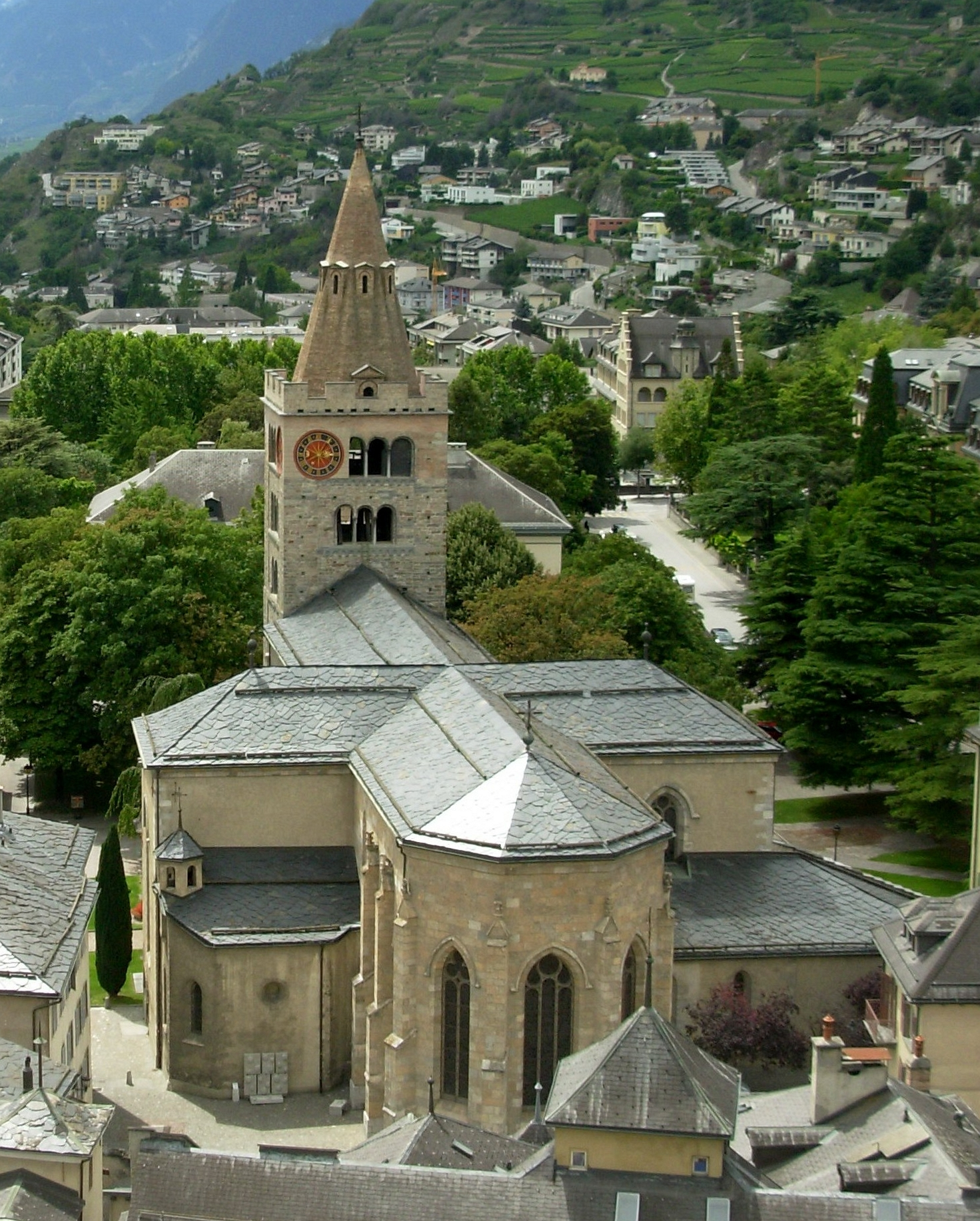 Old town and cathedral of Sion (Switzerland)